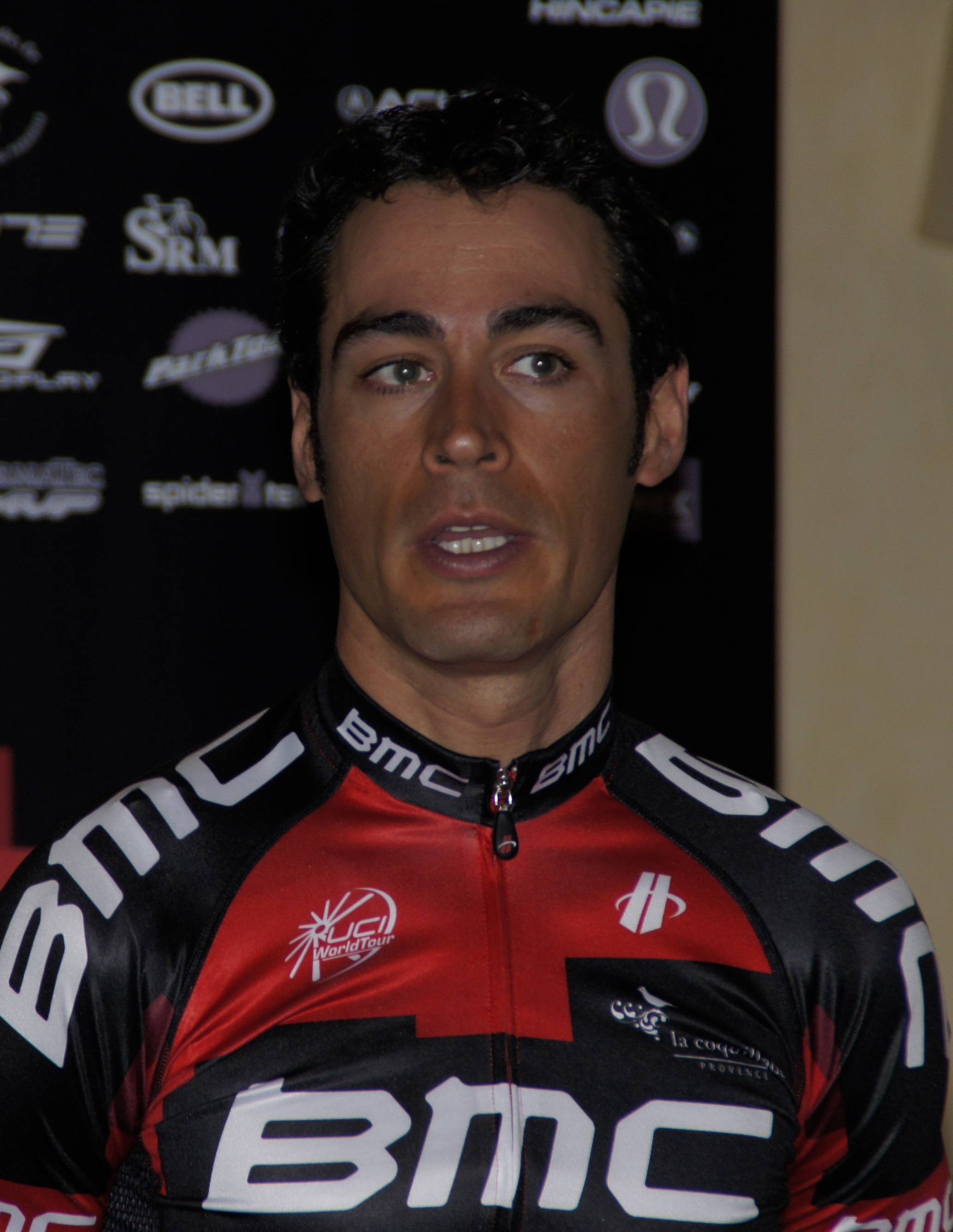 Manuel Quinziato at the team presentation of the BMC Racing Team in Denia Spain.